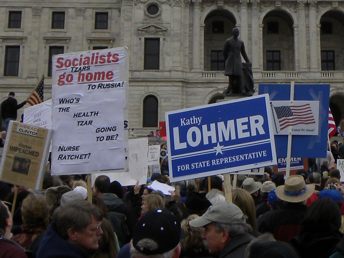 March 13, 2010 in St. Paul, Minnesota The Tea Party people held a rally calling for the health care reform bill currently being considered in congress to be stopped. Republican U.S. representative Michele Bachmann was the guest speaker. The crowd was filled with signs and stickers for Bachmann and other Republican candidates.